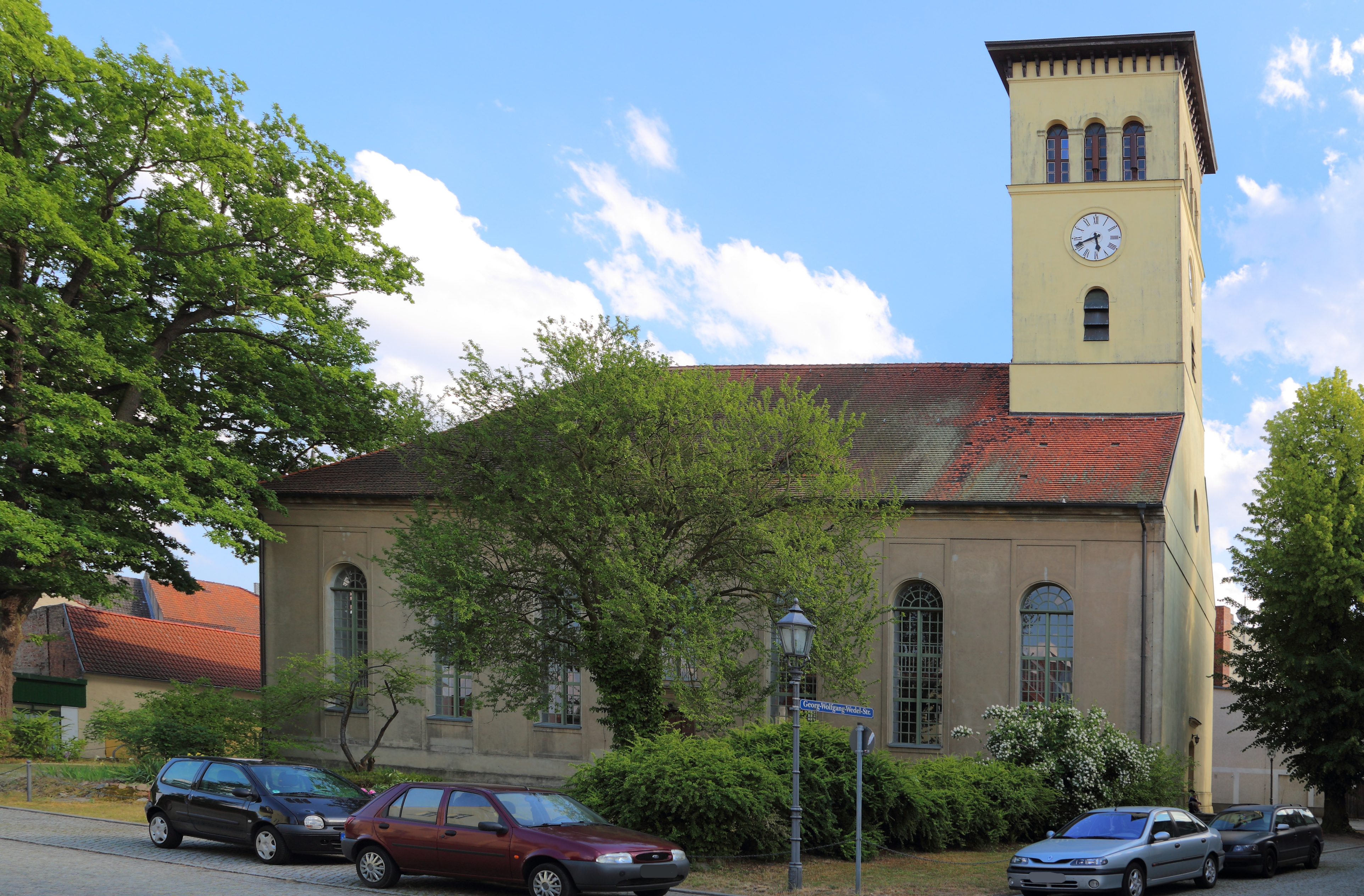 Protestant City Church (Stadtkirche) in Golßen, Landkreis Dahme-Spreewald, Brandenburg, Germany.